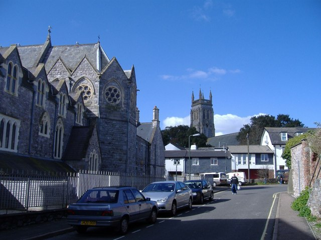 Priory Road, St Marychurch. The tower of the parish church of St Mary's, stands out above the houses.